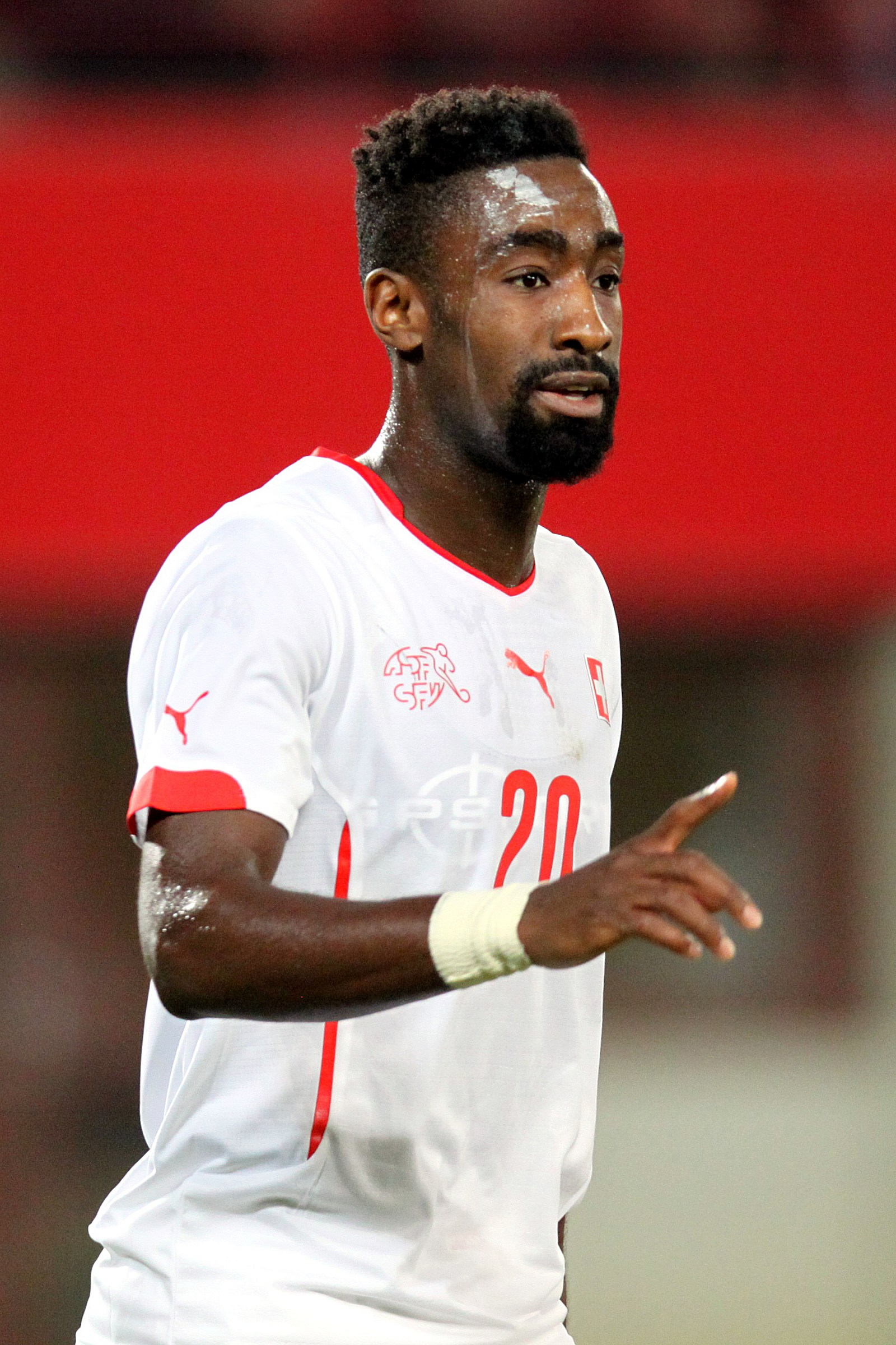 Friendly match – Austria (red shirts) vs. Switzerland (white shirts) 1-2 (1-2) – 2015-11-17 in Vienna, Ernst-Happel-Stadion – The photo shows Johan Djourou.